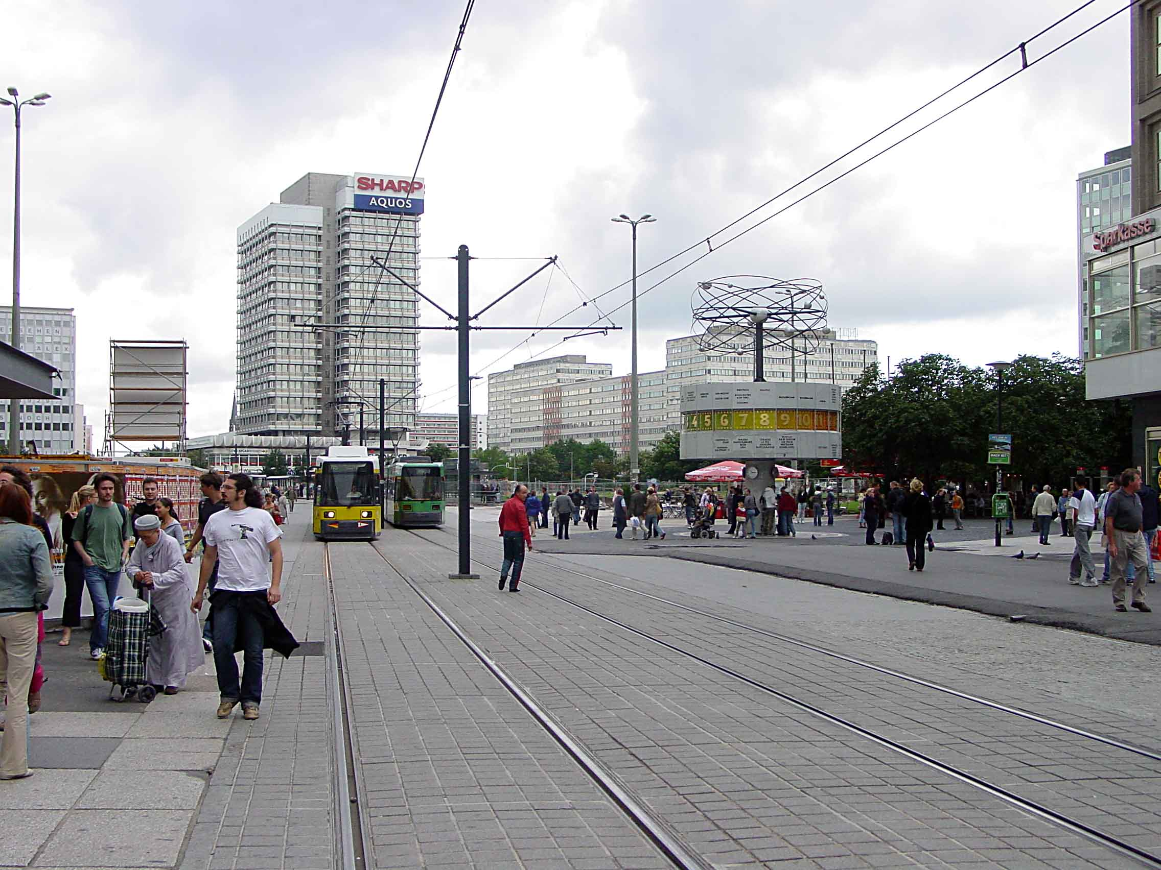 The Berlin tramway track at the Alexanderplatz